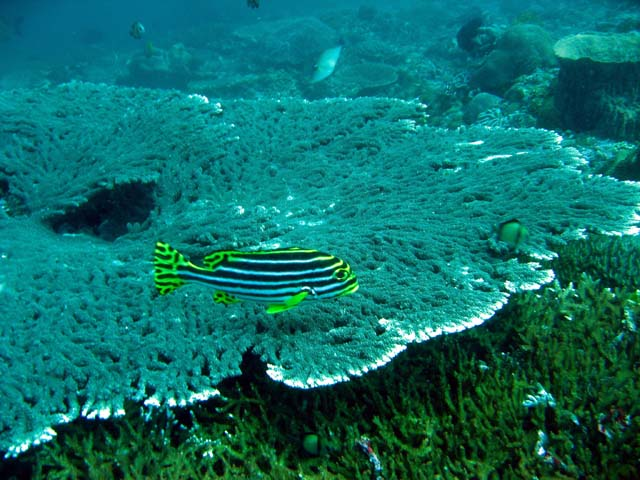 Staghorn coral (Acropora sp.), Bali, Indonesia